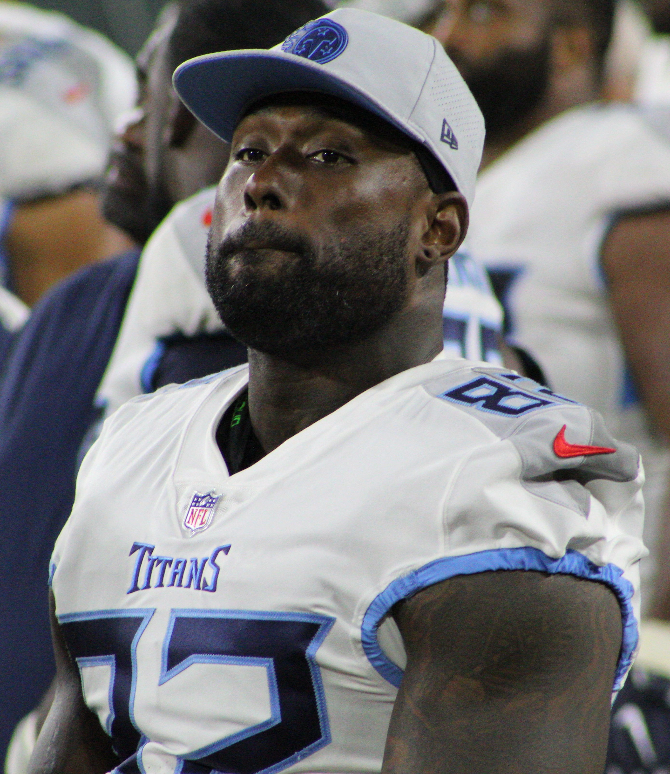 Delanie Walker, Tennessee Titans at Green Bay Packers (Preseason), August 9, 2018